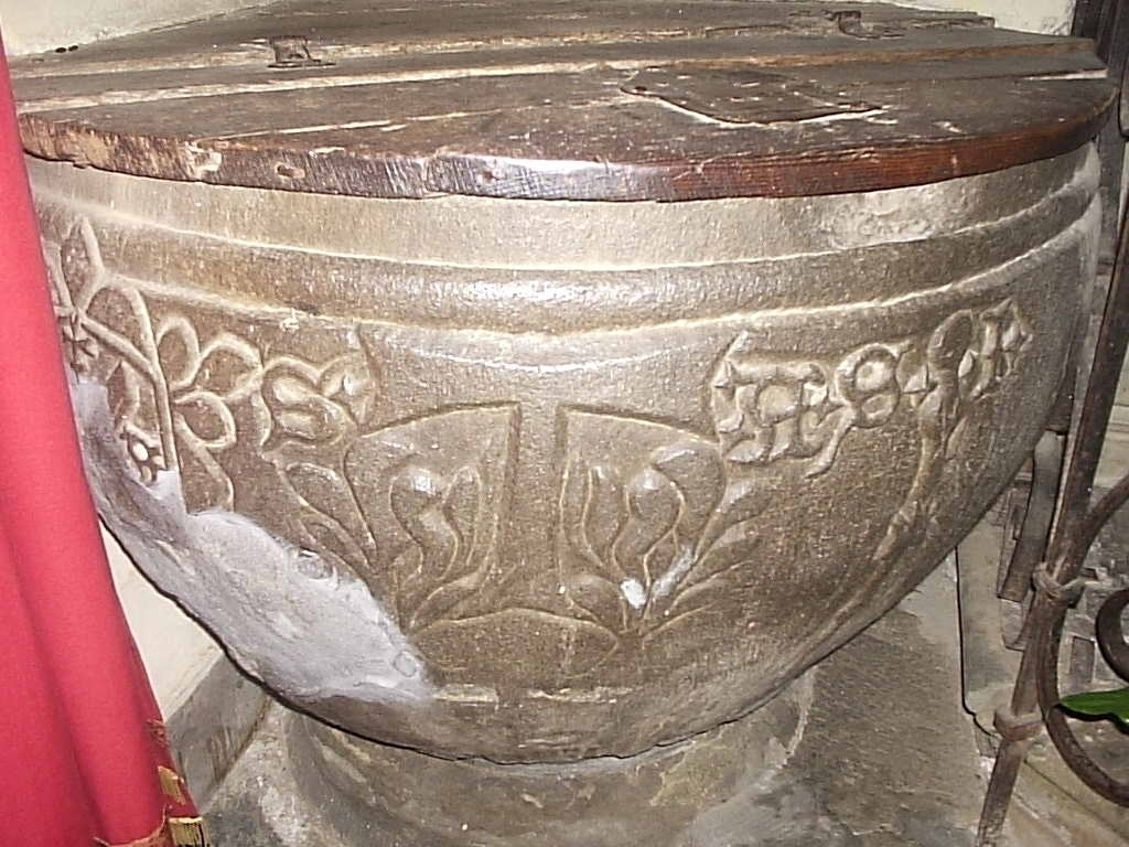 FIVIZZANO: baptismal font of the fourteenth century (with the symbol of TAU) in the provost church of S. SAN ANTONIO and JACOPO (Compostela) founded July 30, 1377 by the Hospitaller Brothers of St. Anthony of VIENNE (France) who came to Fivizzano administer the 'Hospital wanted to with a will by Spinetta Malaspina the Great.